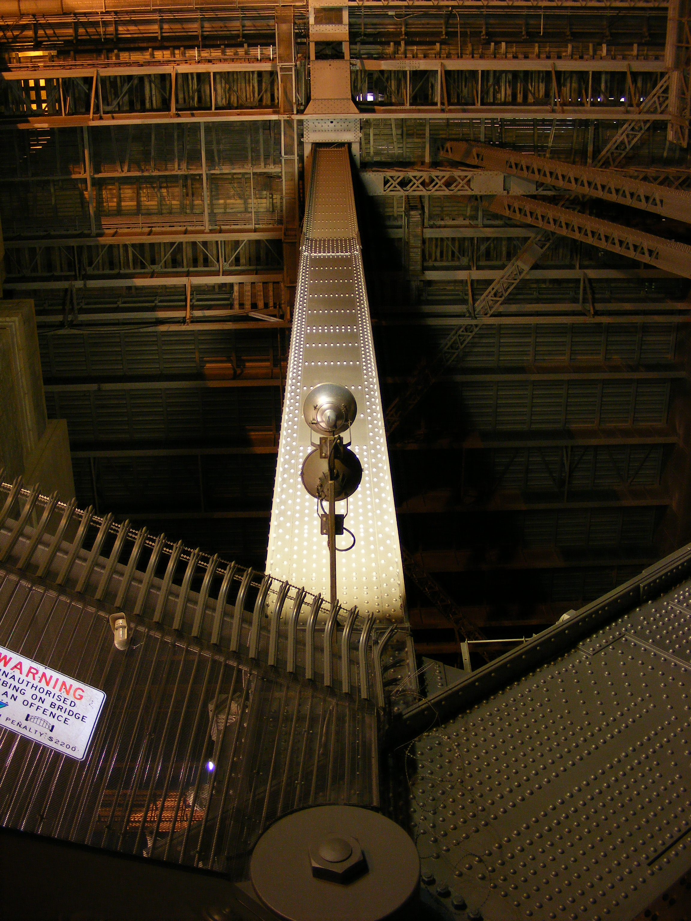 Sydney Harbour Bridge